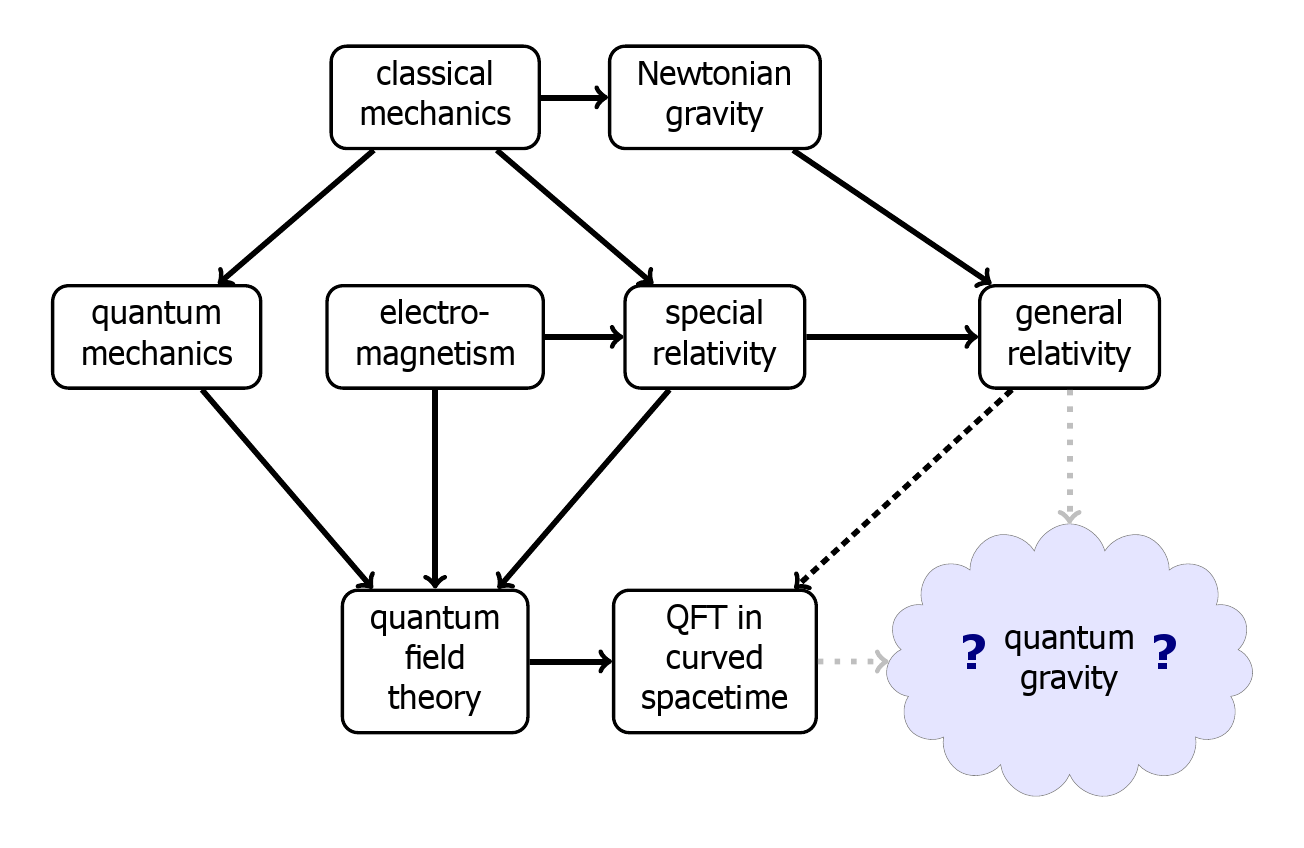 A diagram showing where quantum gravity sits in the hierarchy of physics theories.